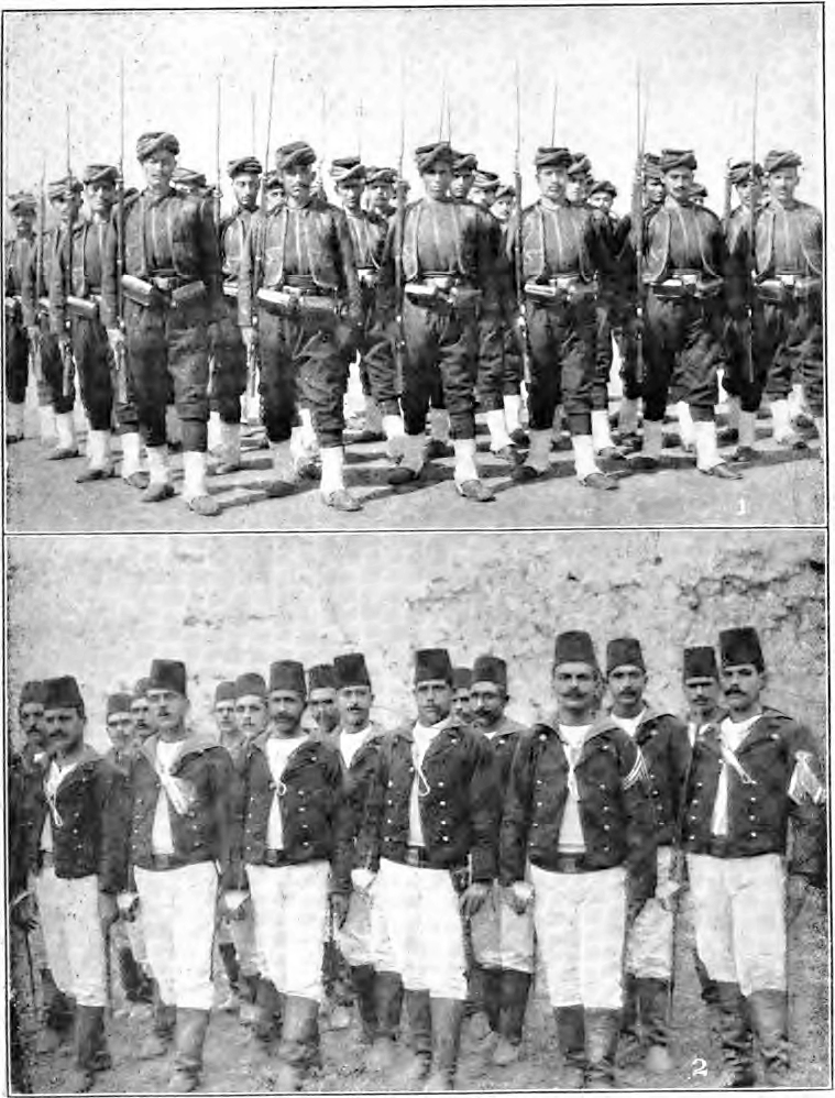 1. Turkish Soldiers. 2. Turkish Sailors. Illustration from the "Turkey" article in The Americana: A Universal Reference Library Comprising the Arts and Sciences, Literature, History, Biography, Geography, Commerce, etc., of the World , Vol. 21 (Triennial Act–Vivianite), edited by Frederick Converse Beach (New York: Scientific American Compiling Department, 1912). This image is in the public domain.